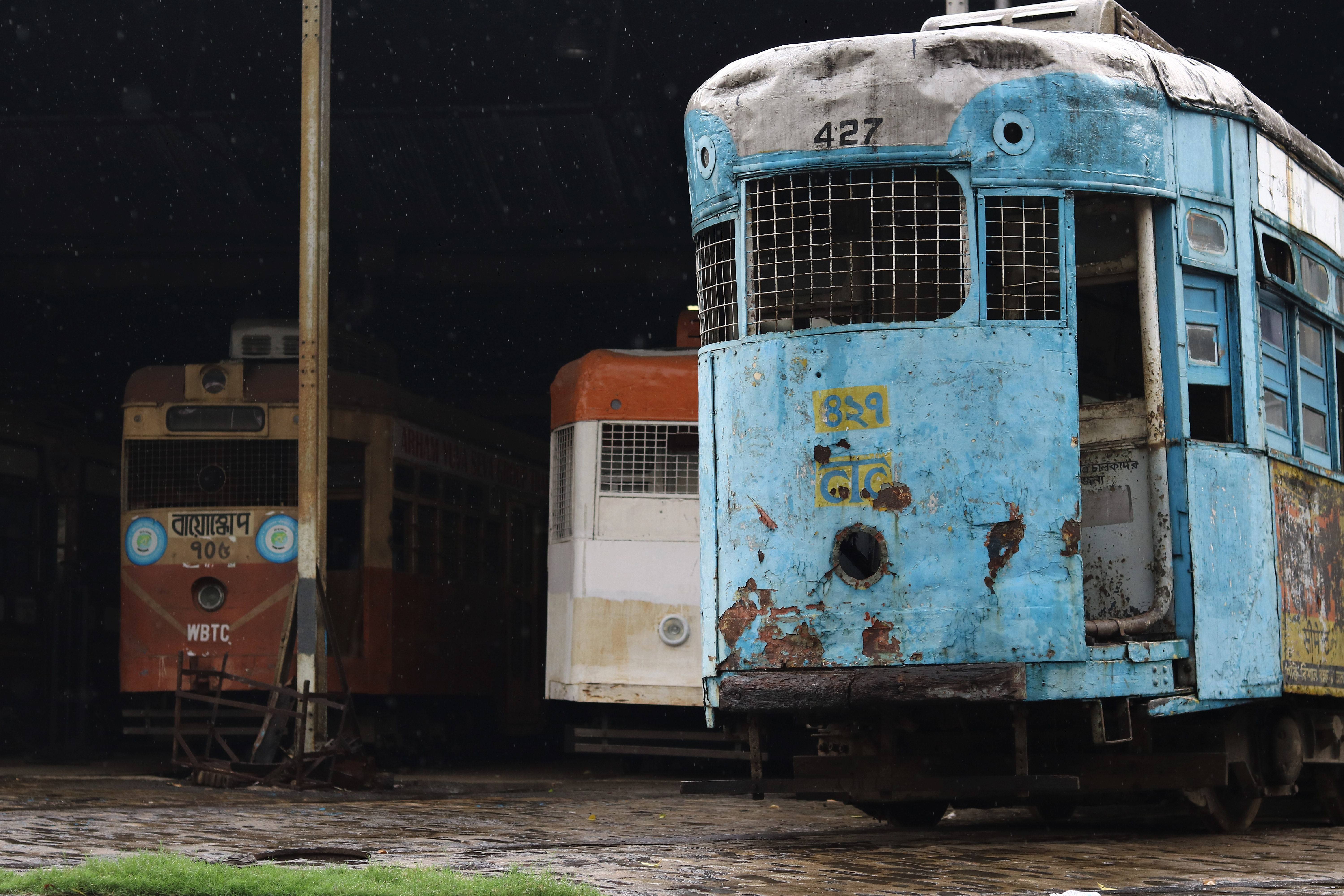 Inside Nonapukur depot